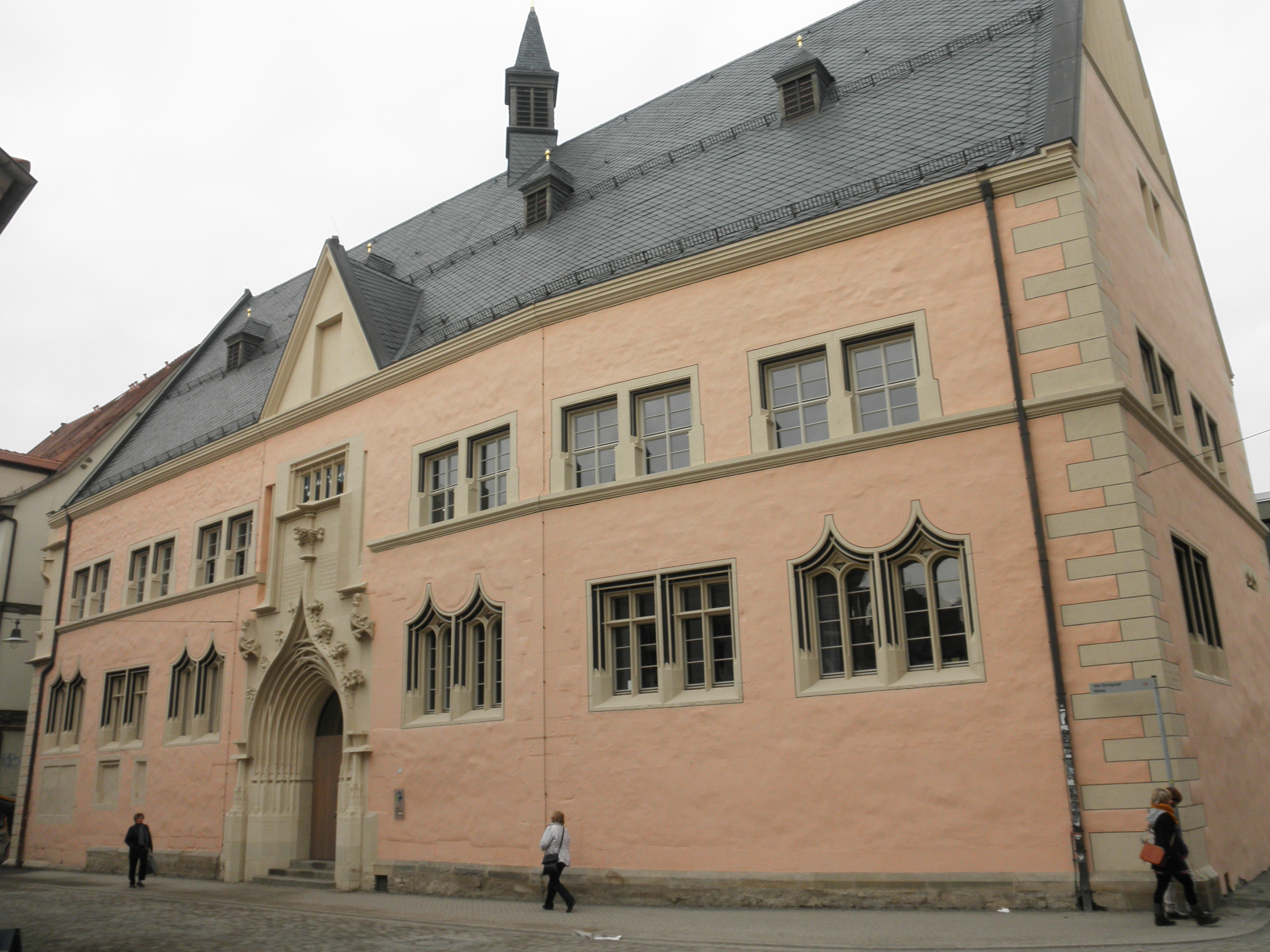 Collegium Maius in Erfurt in Thuringia (2011)